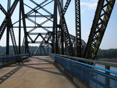 Chain of Rocks Bridge, St. Louis, Missouri